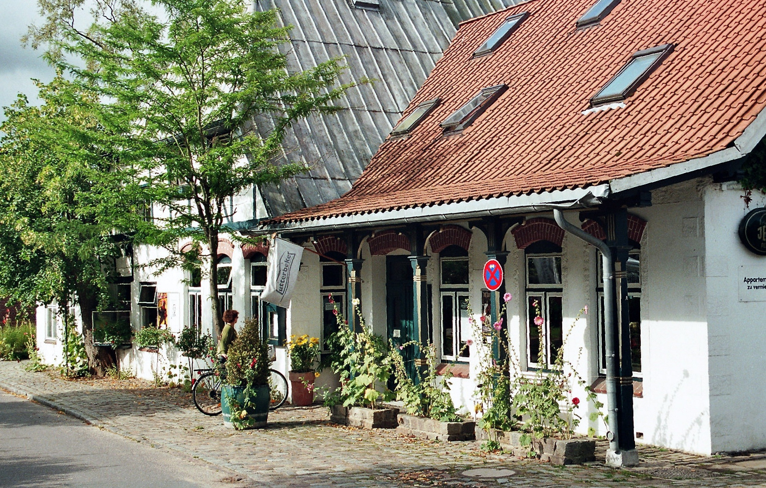 Lutterbek, the inn "Lutterbeker"